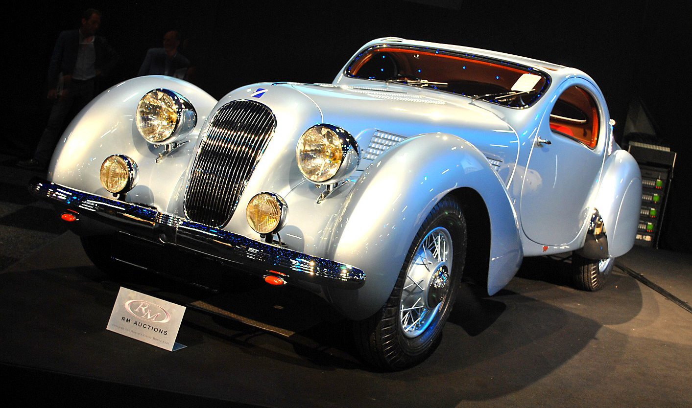 Talbot-Lago T23 Teardrop Coupé by Figoni et Falaschi (1938)